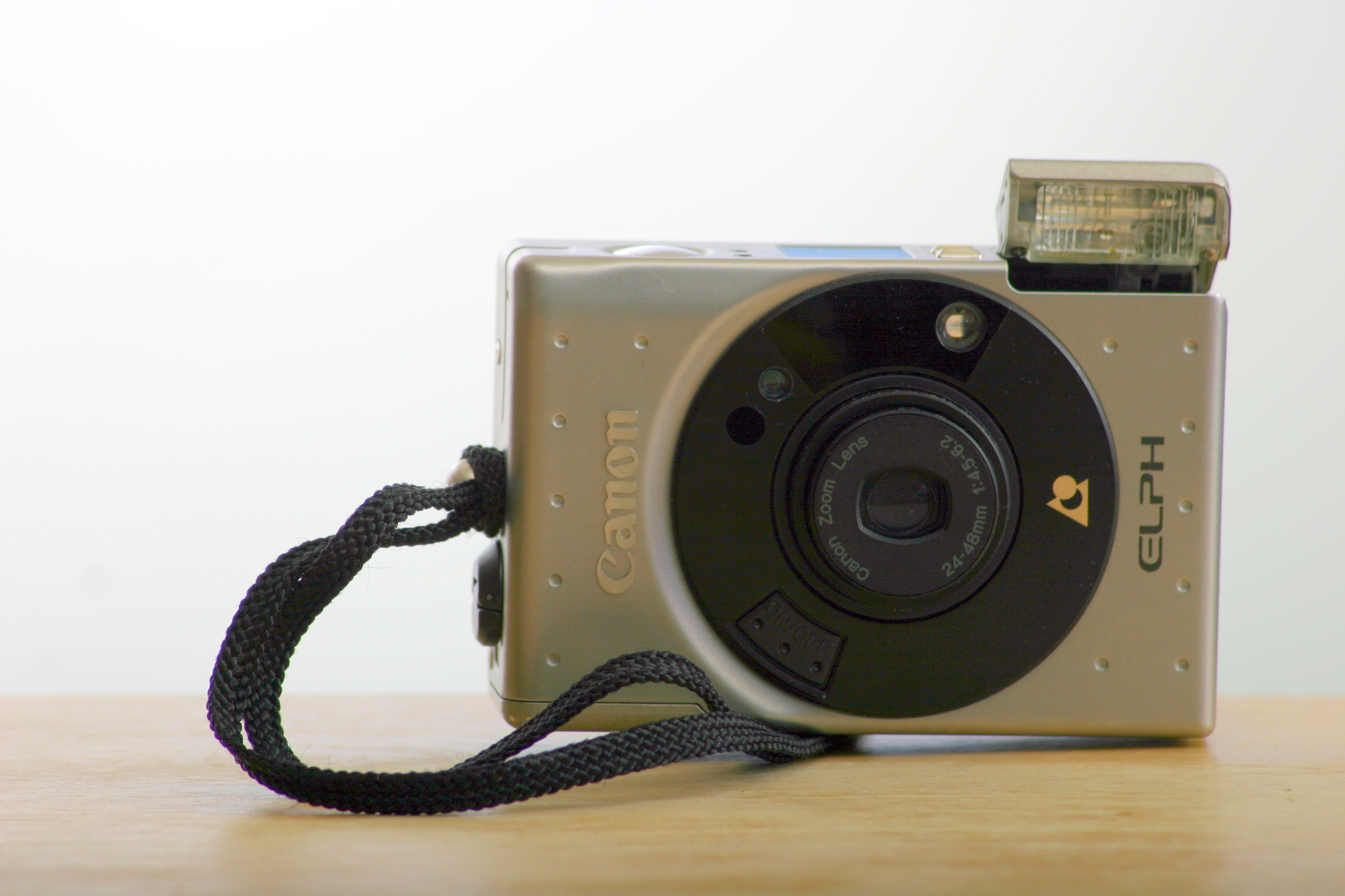 Strobist info: Nikon SB-15 (Auto) (Behind) Sunpak Auto 383 Super (Auto) (Right of Subject) Promaster FTD7000M (Full Power) (On-Camera) Triggered with vintage Wein Micro-Slaves